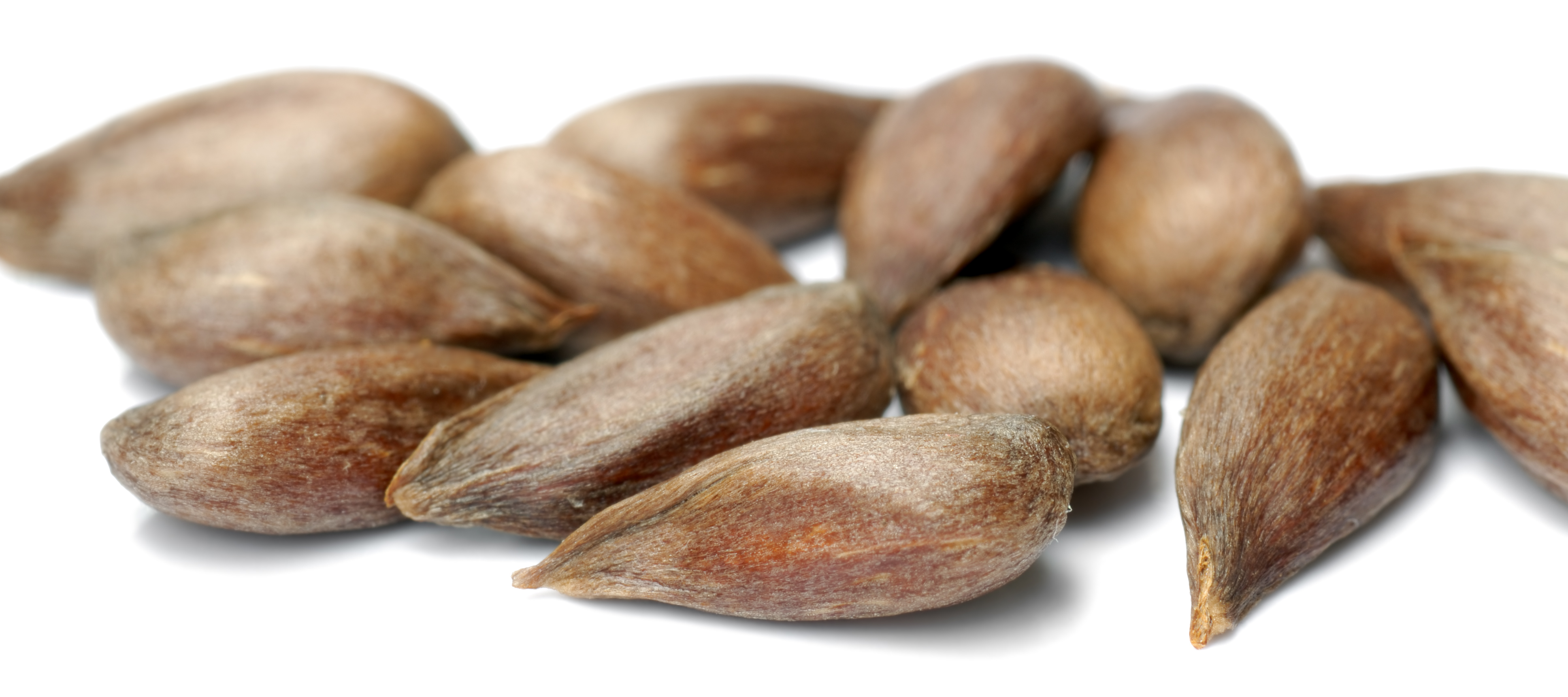 This image shows a few apple seeds of the variety "Reglindis". The length of each seed is about 8,5 mm (0.33 inch). Thanks to Conny for providing the objects and for the assistance during the photo session.